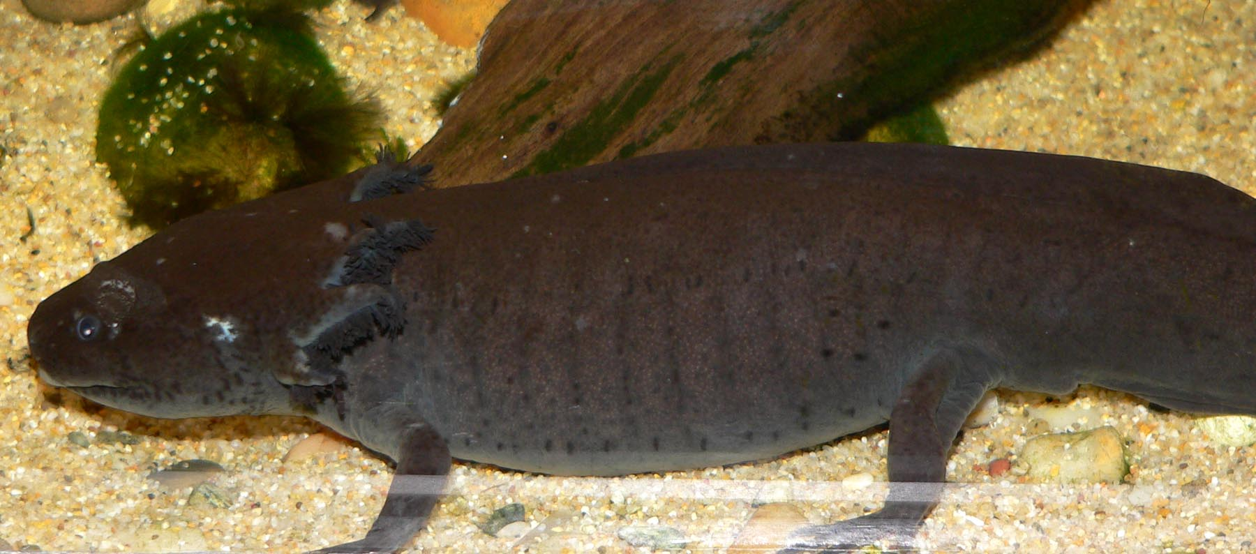 Photo of Ambystoma mexicanum (axolotl) at the Steinhart Aquarium in San Francisco